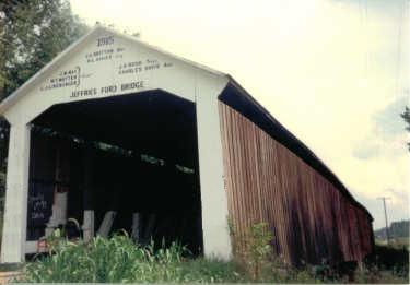 Jeffries Ford Covered Bridge (Some graffiti airbrushed out)